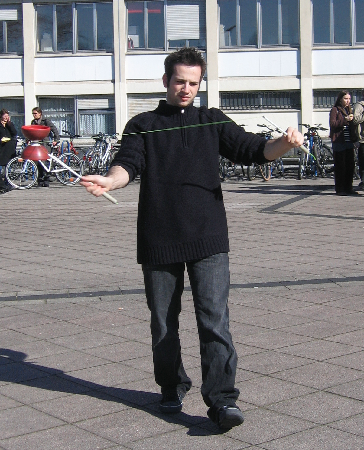 Excalibur diabolo position